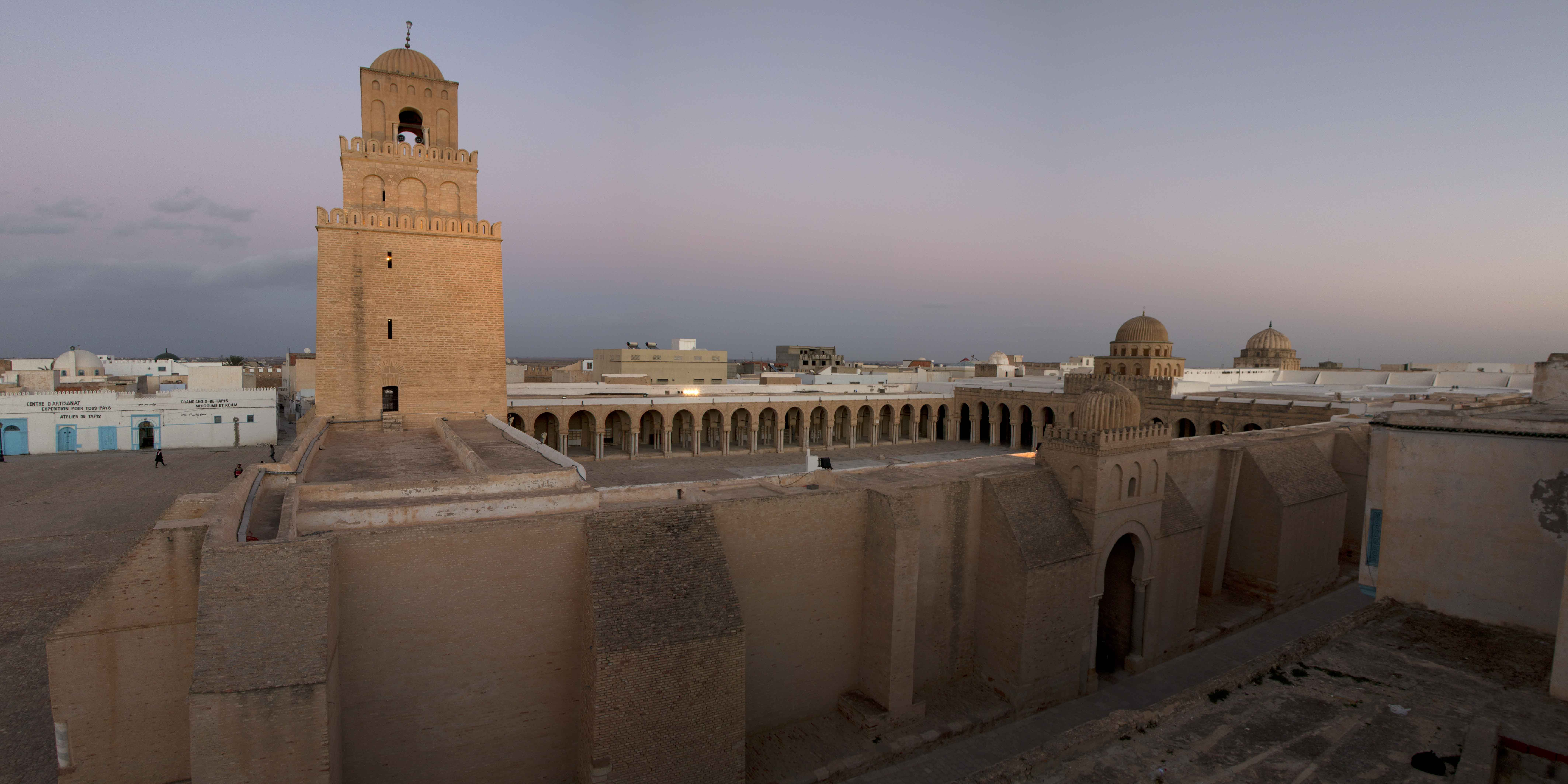 The Great Mosque of Kairouan, in Tunisia, the oldest mosque mosque in the Maghreb region, and one of the most important mosques in the Islamic World.